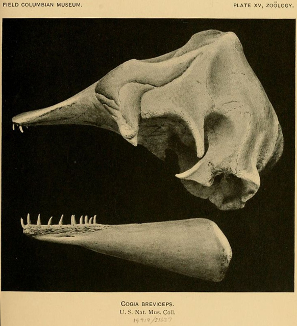 Pygmy sperm whale (Kogia breviceps) skull viewed from the side.